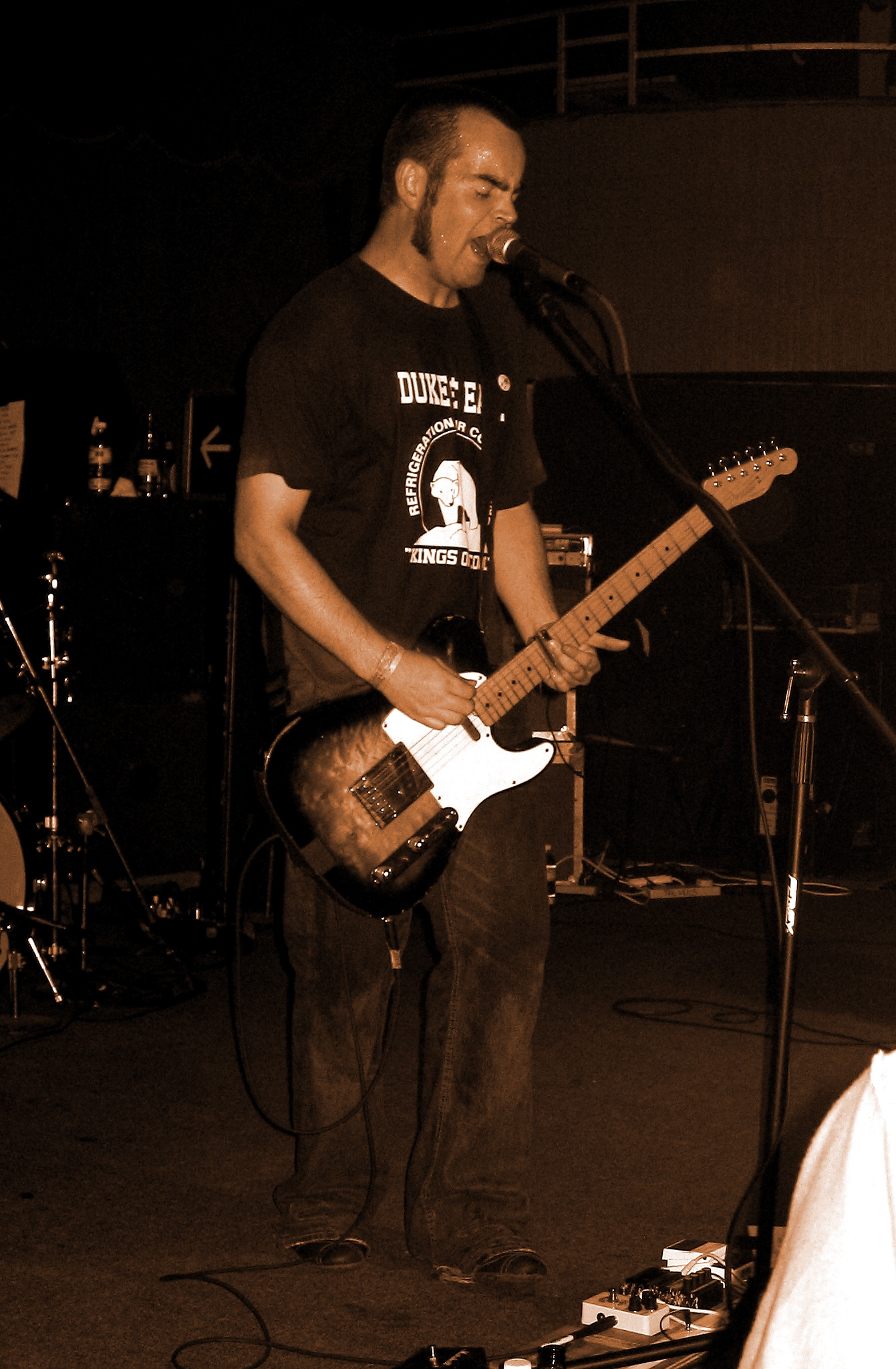 Andy "Falco" Falkous performing with the band McLusky at the Southgate House in Newport, Kentucky